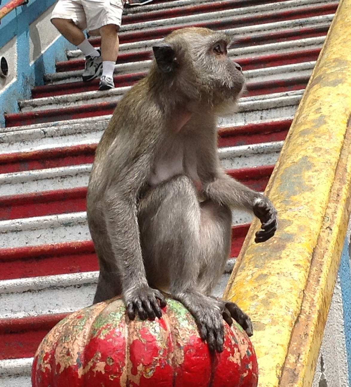 Cynomolgus Monkey taken at the Batu Caves